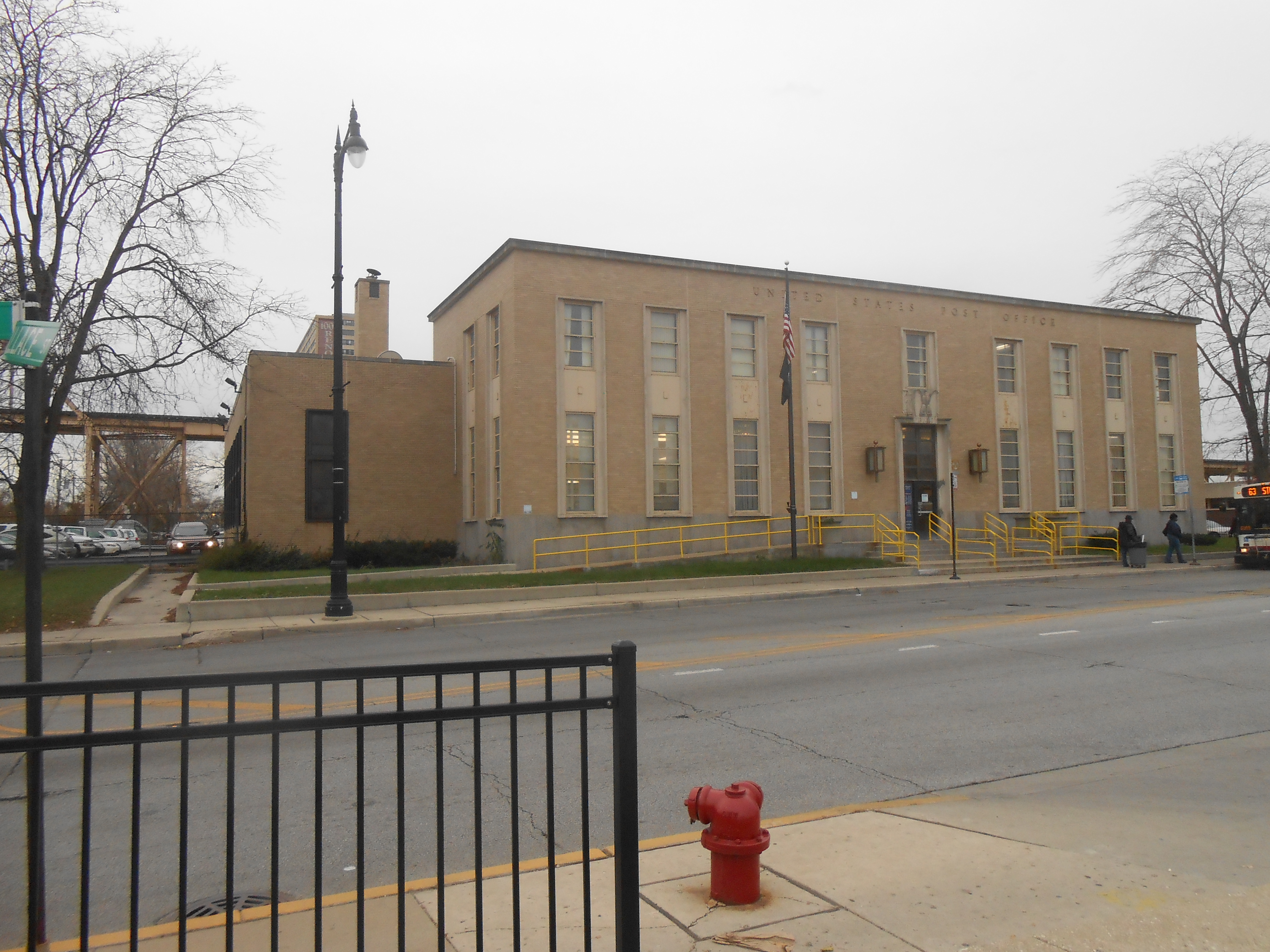 The U. S. Post Office of the Englewood neighborhood, 611 West 63rd Street, Chicago, IL 60621, partially overlapping the site of H. H. Holmes' Murder Castle demolished in 1938 (the plot of the left section of the current building and further to the left).